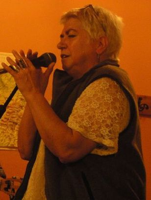 Amaia Zubiria